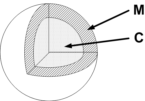 Gurney equations explosives engineering diagram of spherical configuration. Sphere of explosives of mass C initiated at its center, with surrounding inert flyer of mass M.